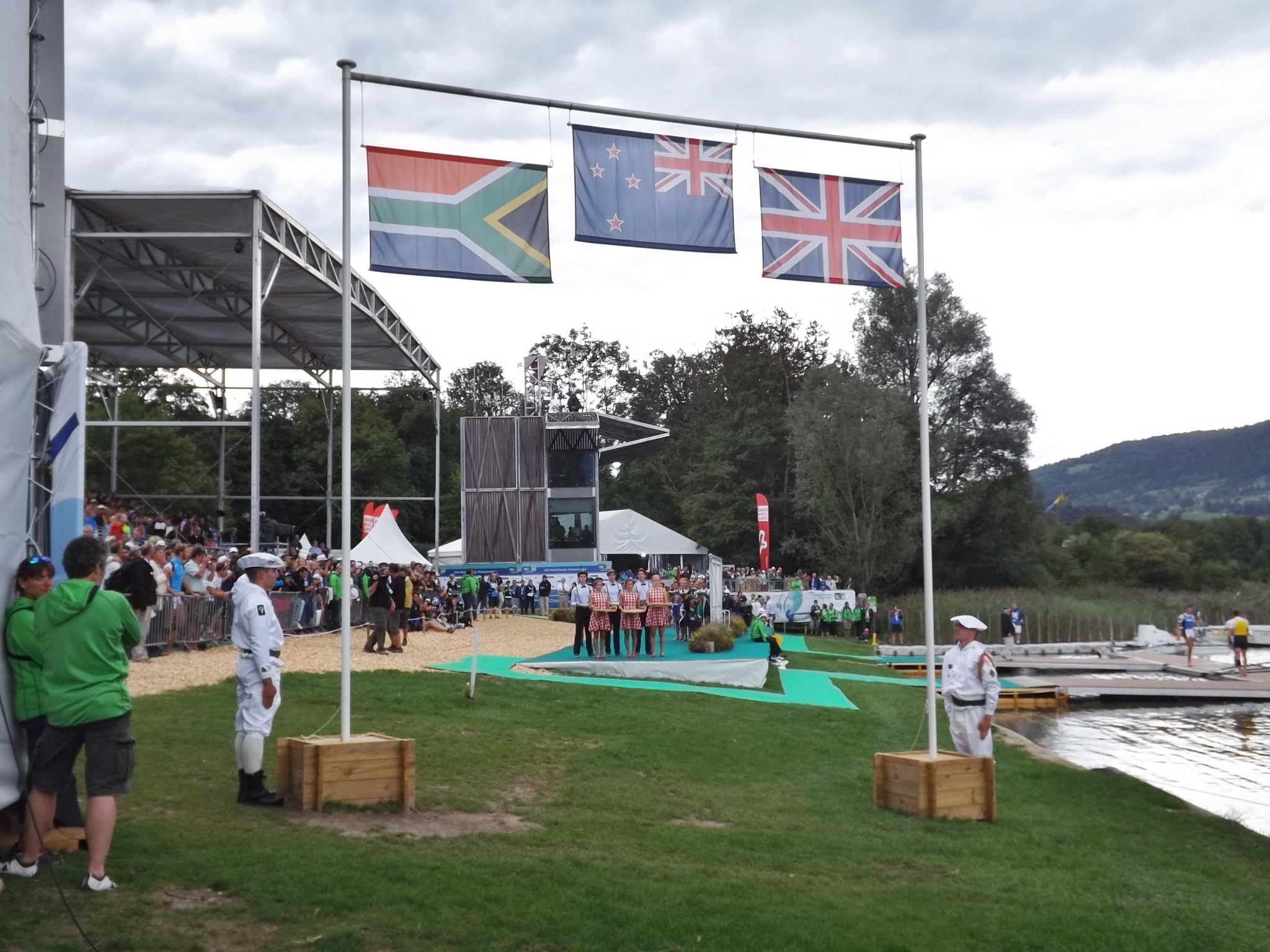 Medals ceremony, won by New Zealand, Great Britain and South Africa, during the 2015 World Rowing Championships taking place on the lac d'Aiguebelette lake, in Savoie, France.